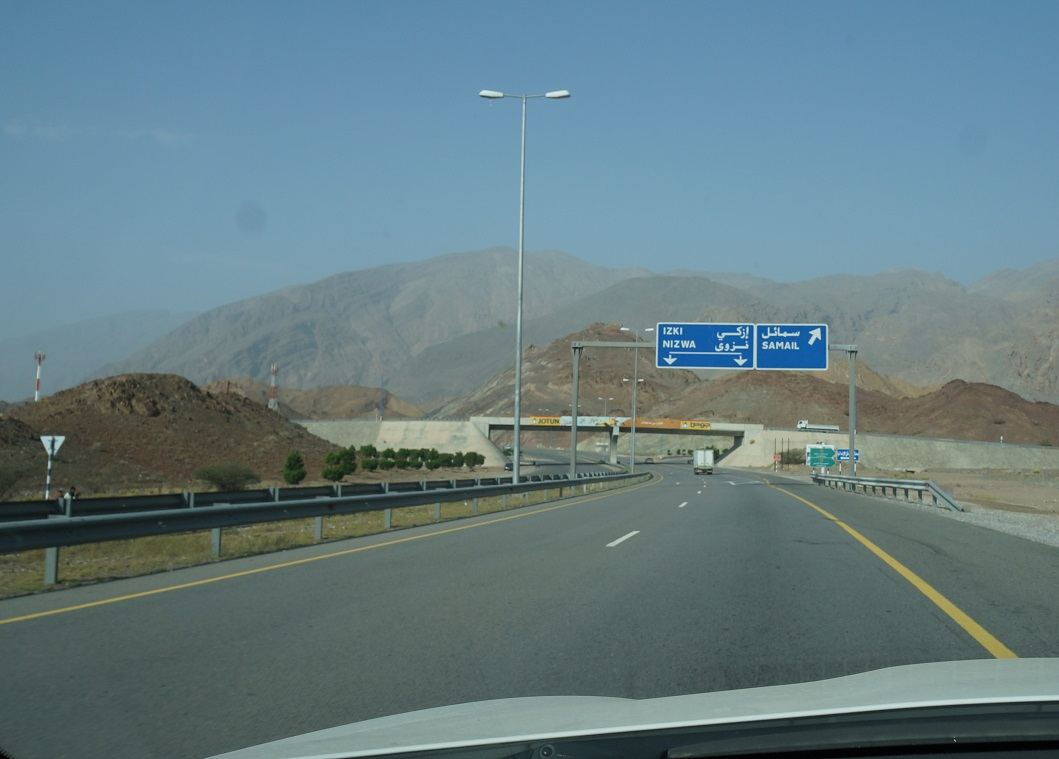 Highway 15 to Nizwa in 2014.